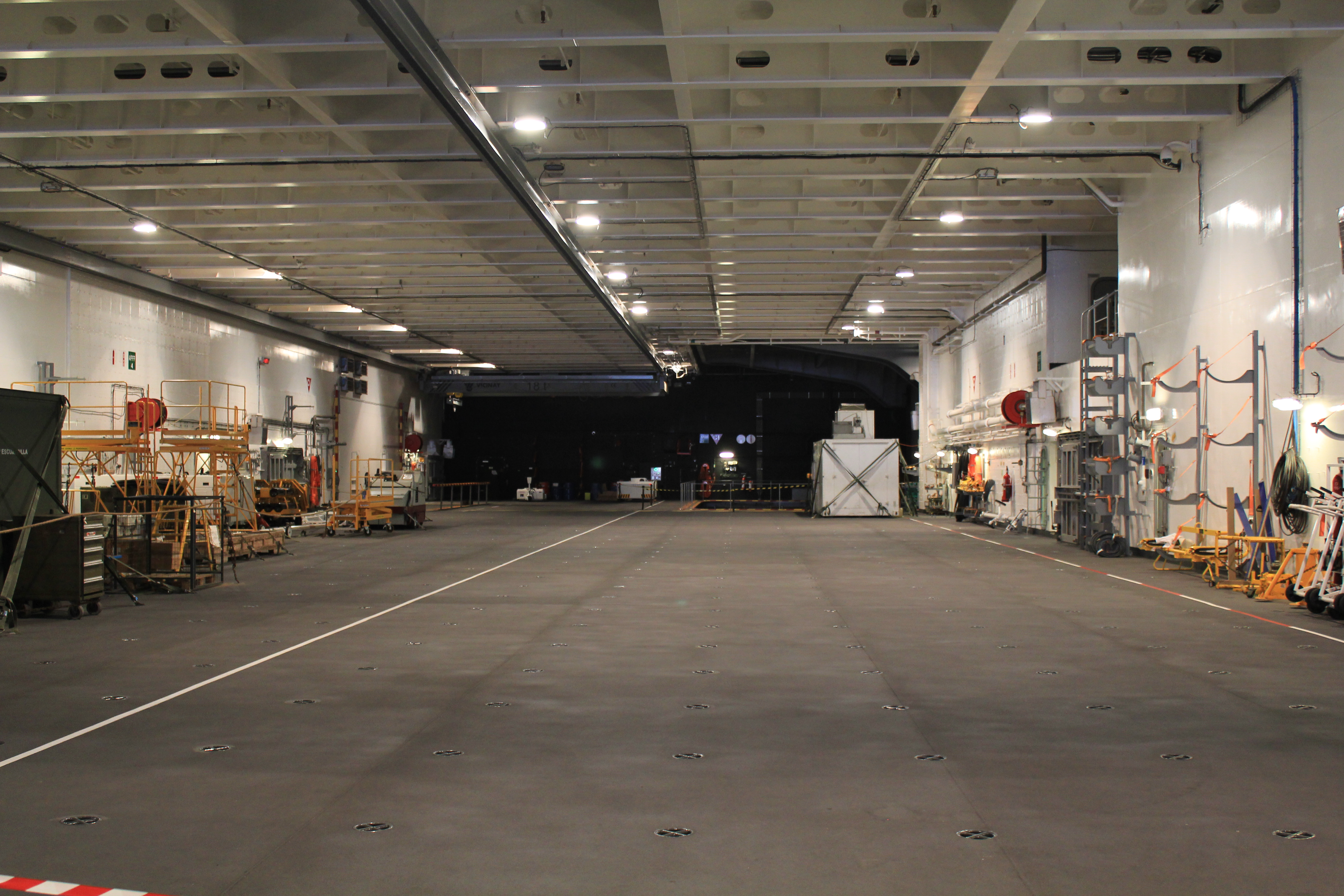 The aircraft hangar of the Spanish anphibious vessel Juan Carlos I (L61).